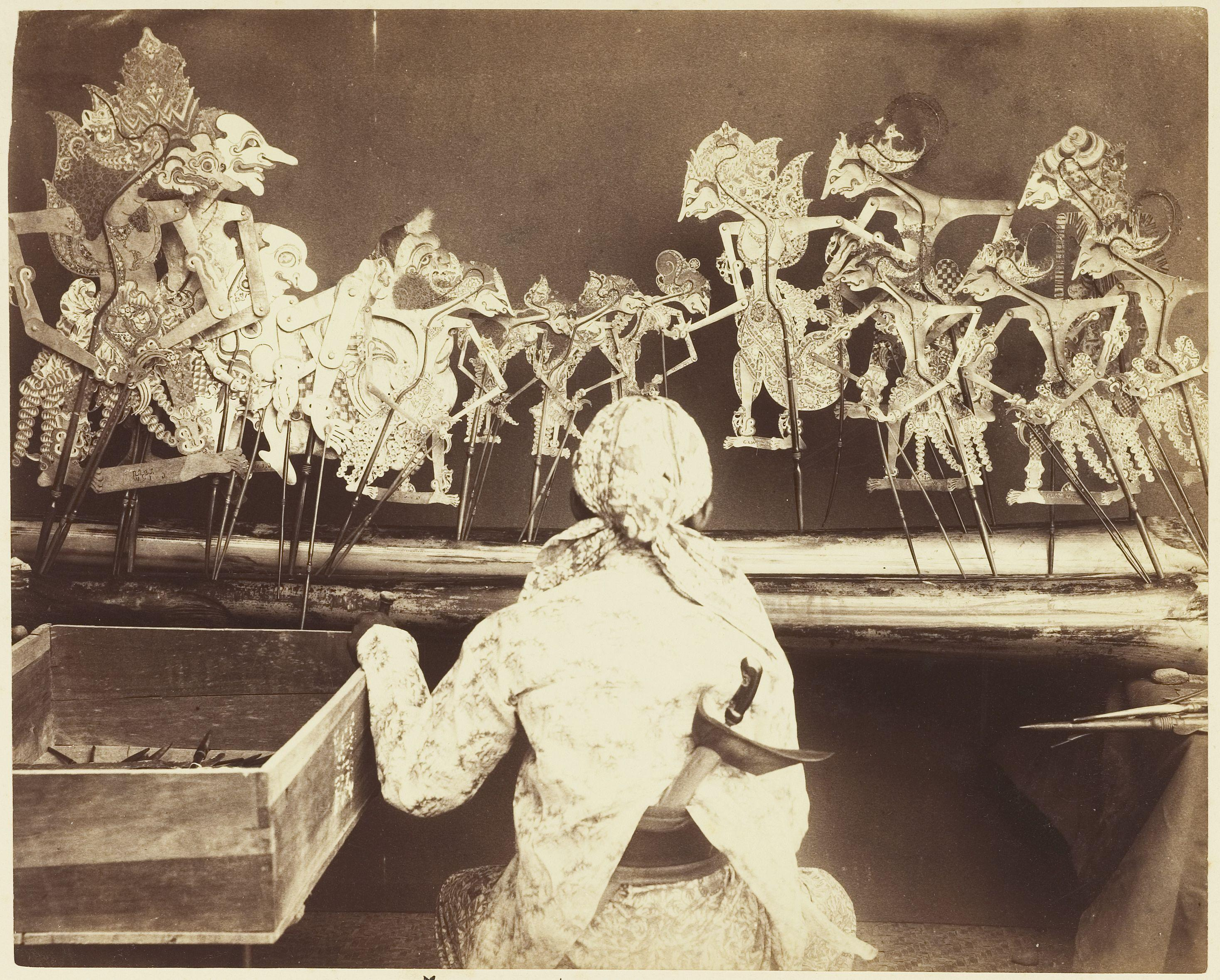 Wayang Kulit performance in Java, c. 1890